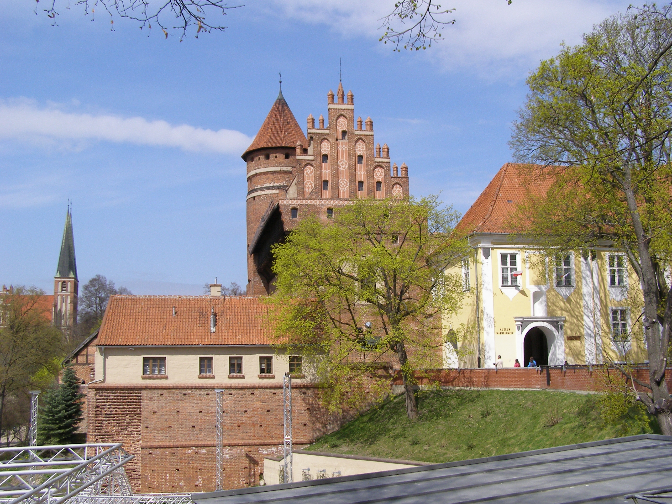 Olsztyn - castle